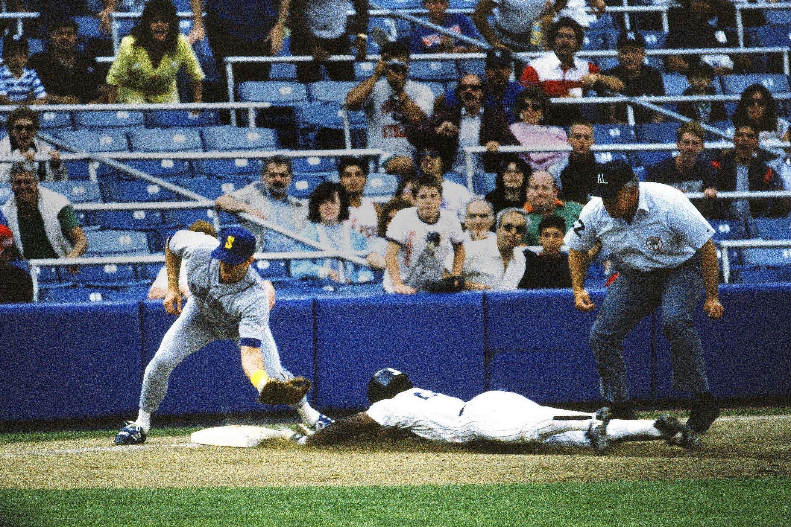 Rickey Henderson steals third base for the New York Yankees under the tag of Seattle Mariners Third baseman Jim Presley in the first game of a doubleheader at Yankee Stadium on August 19, 1988.